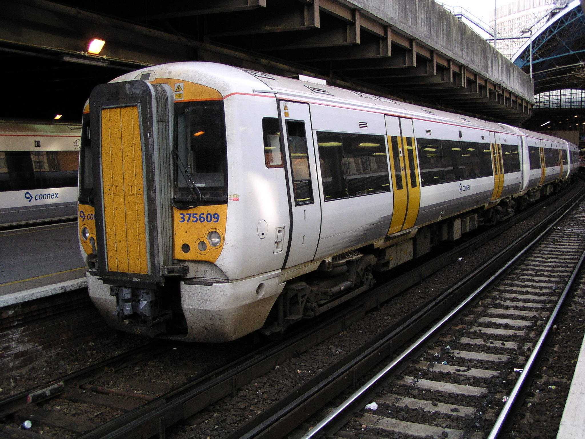 BR Class 375/6, no. 375609 at London Victoria on 15 August 2004. This is one of 30 Class 375/6 "Electrostar" units built for Connex South Eastern, primarily to replace ageing 4Cep units. This unit is now operated by South Eastern Trains.